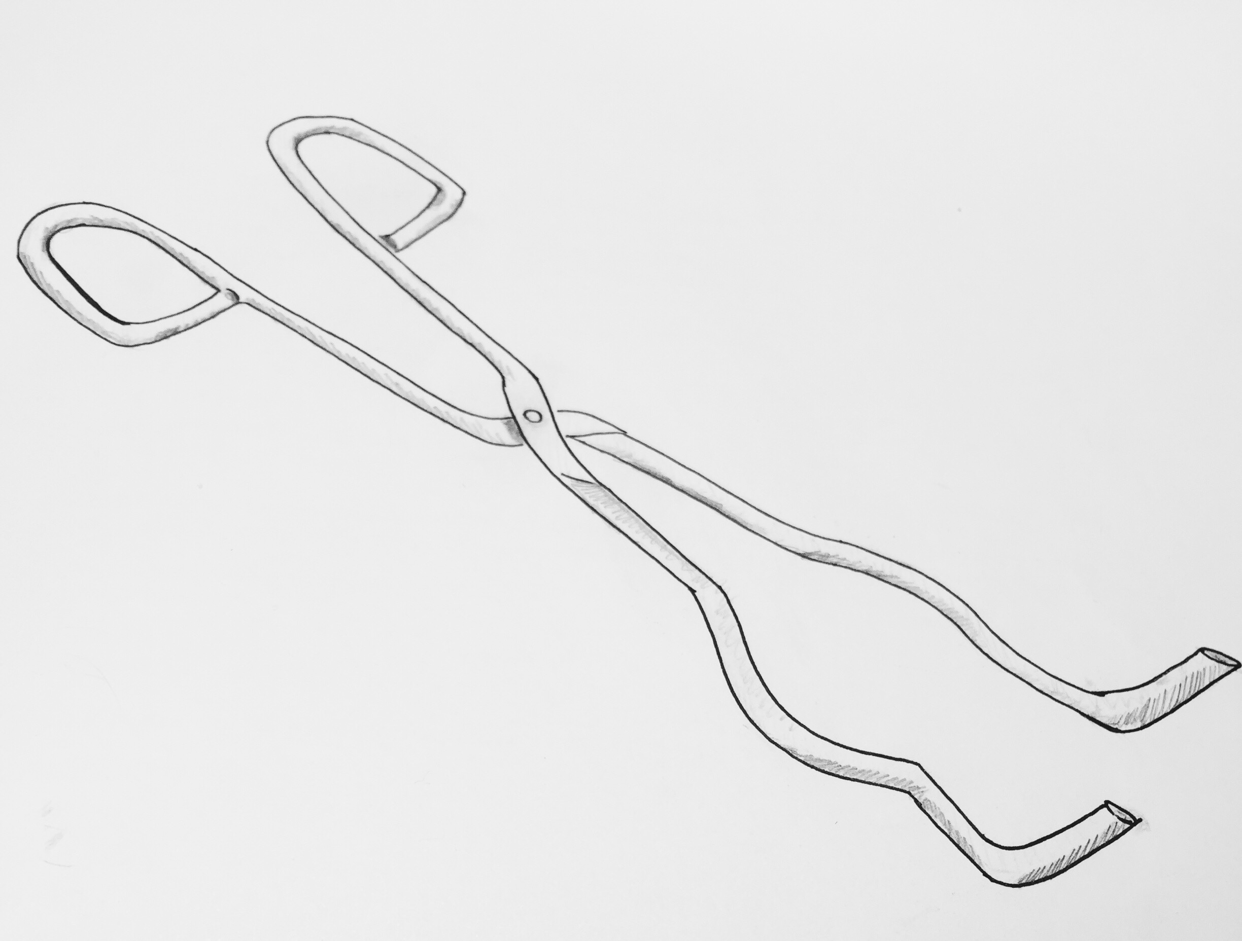 This image was drawn on 12 Feb, 2016